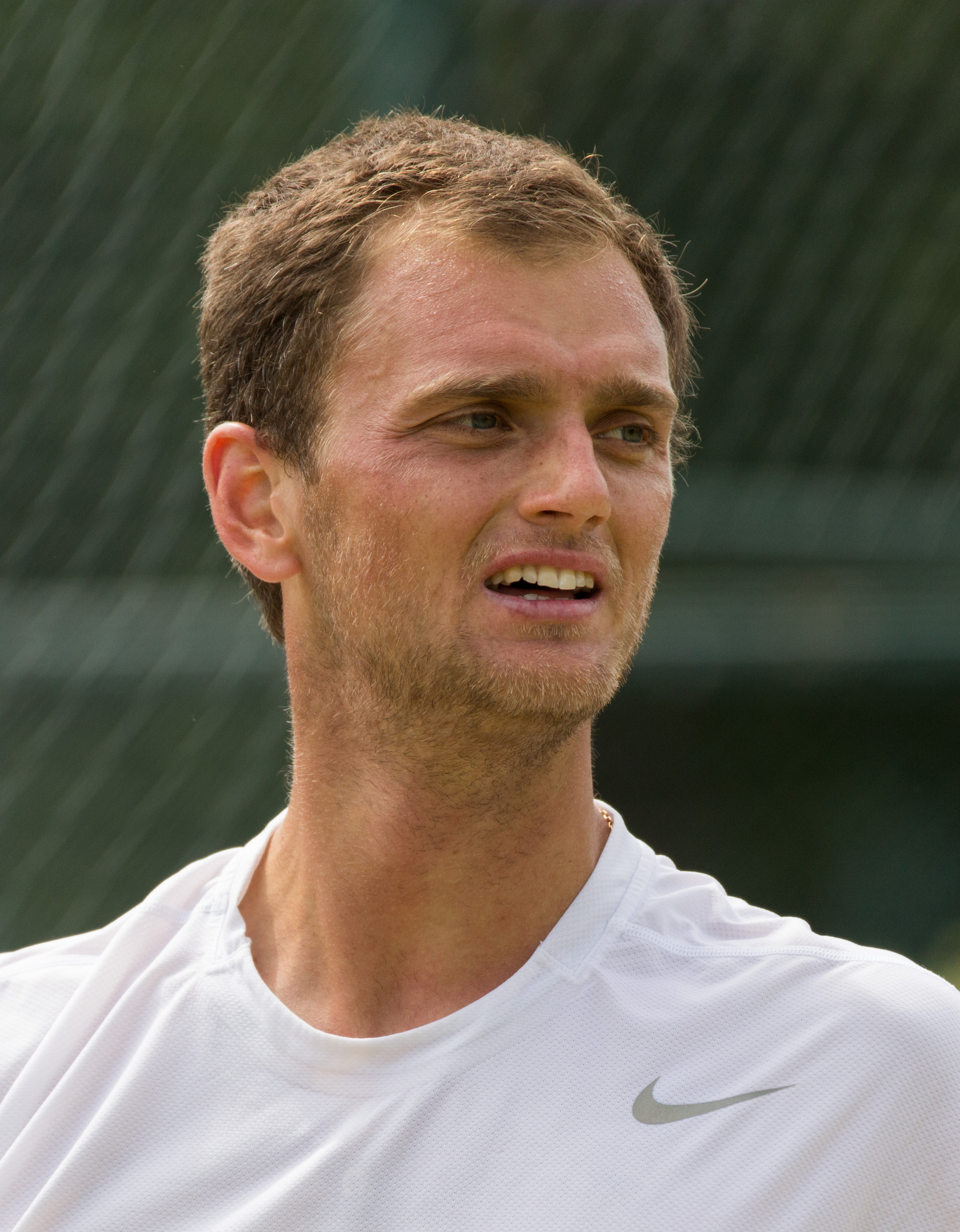 Aleksandr Nedovyesov competing in the third round of the 2015 Wimbledon Qualifying Tournament at the Bank of England Sports Grounds in Roehampton, England. The winners of three rounds of competition qualify for the main draw of Wimbledon the following week.